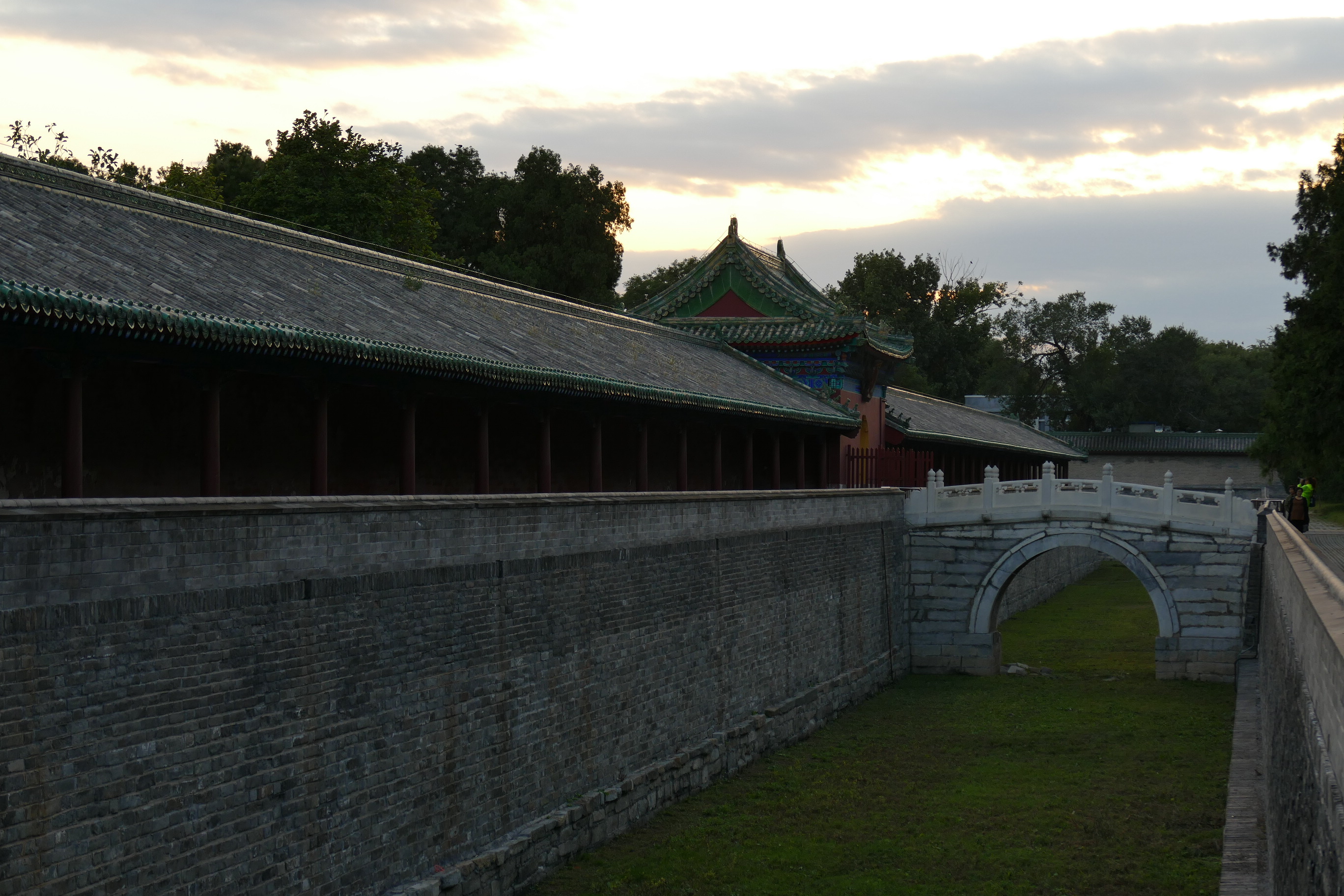 Fasting Palce at Temple of Heaven Park - Beijing, 29.9.2014